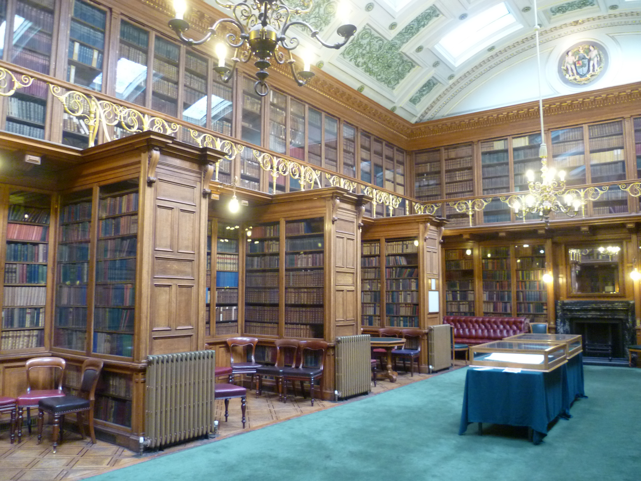 New Library, Royal College of Physicians, Edinburgh